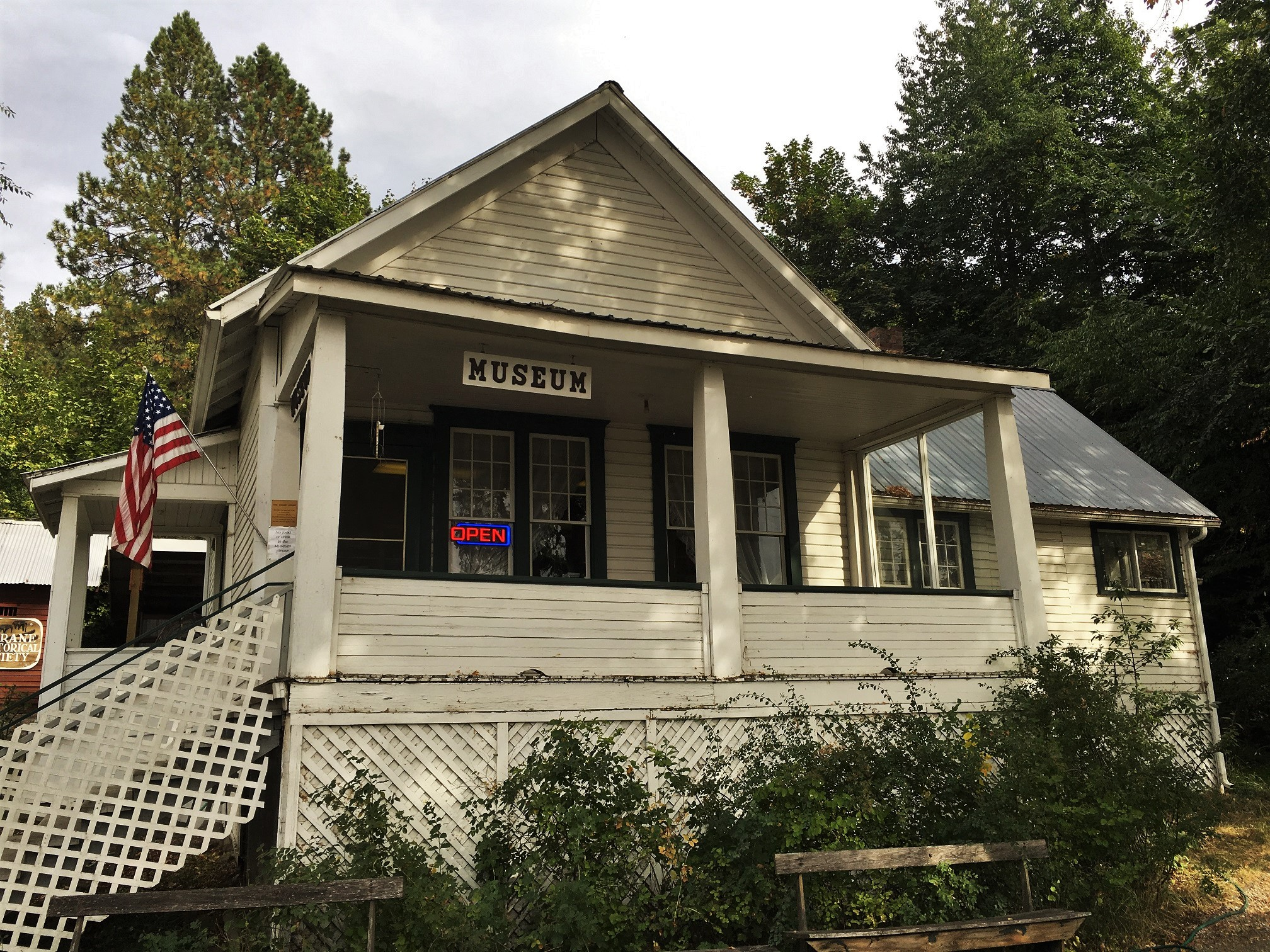 Silas W. and Elizabeth Crane House The Silas Crane House was the first residence completed in Harrison, in 1891. It is currently a regional museum.